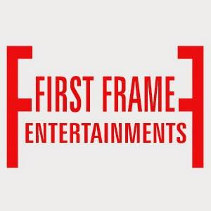 Logo of First Frame Entertainments Pvt. Ltd., a South Indian production house.